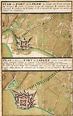 Fort_La_Pree_1722_map